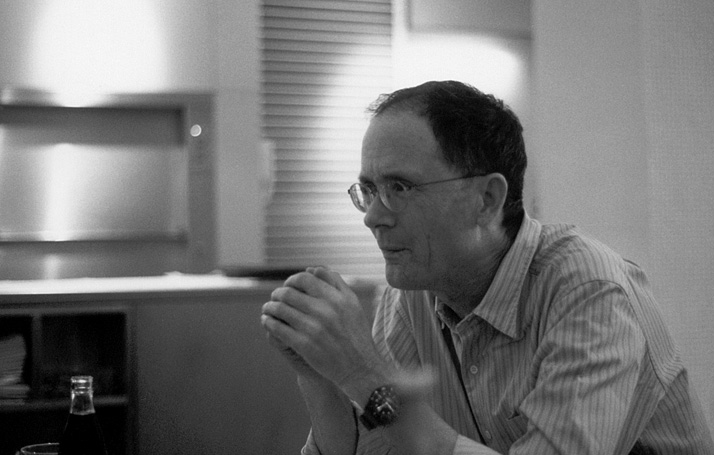 William Gibson at dinner with fans in a Wagamamas franchise in London, September 2007.